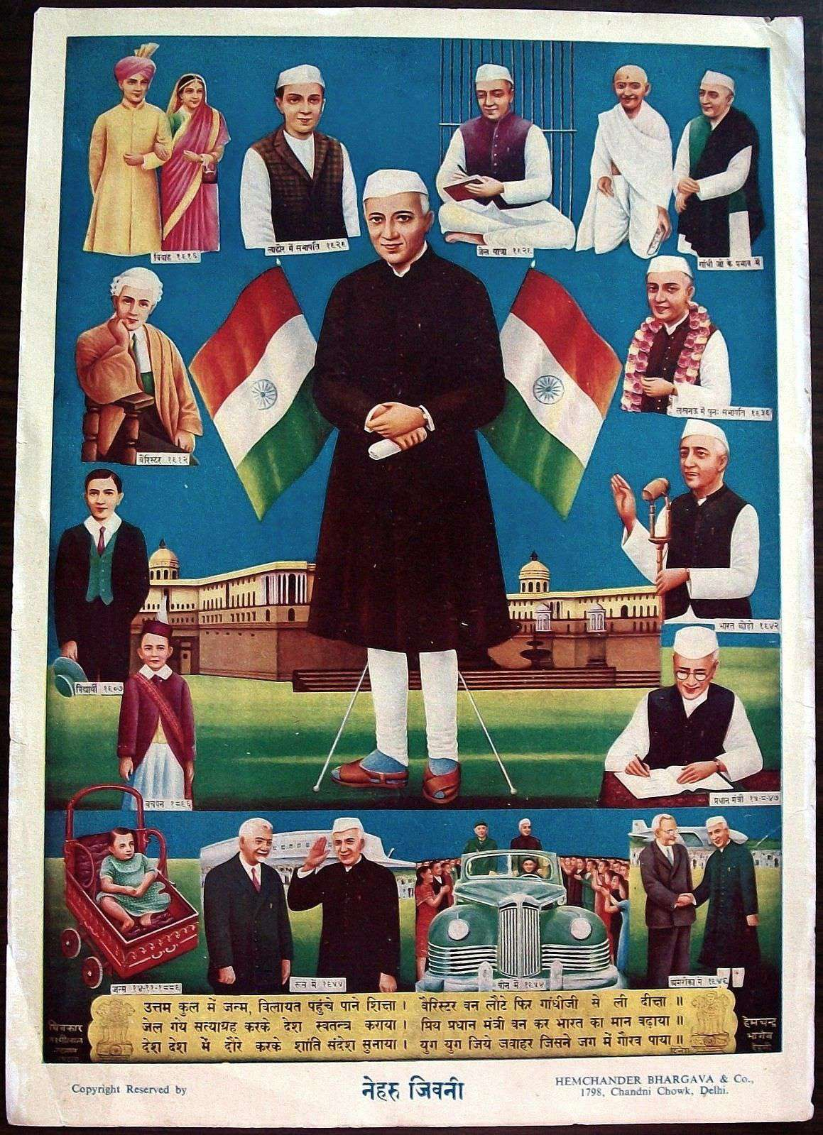 Nehru's life, depicted in a poster probably from the 1950's; *another such view* Source: ebay, Nov. 2013